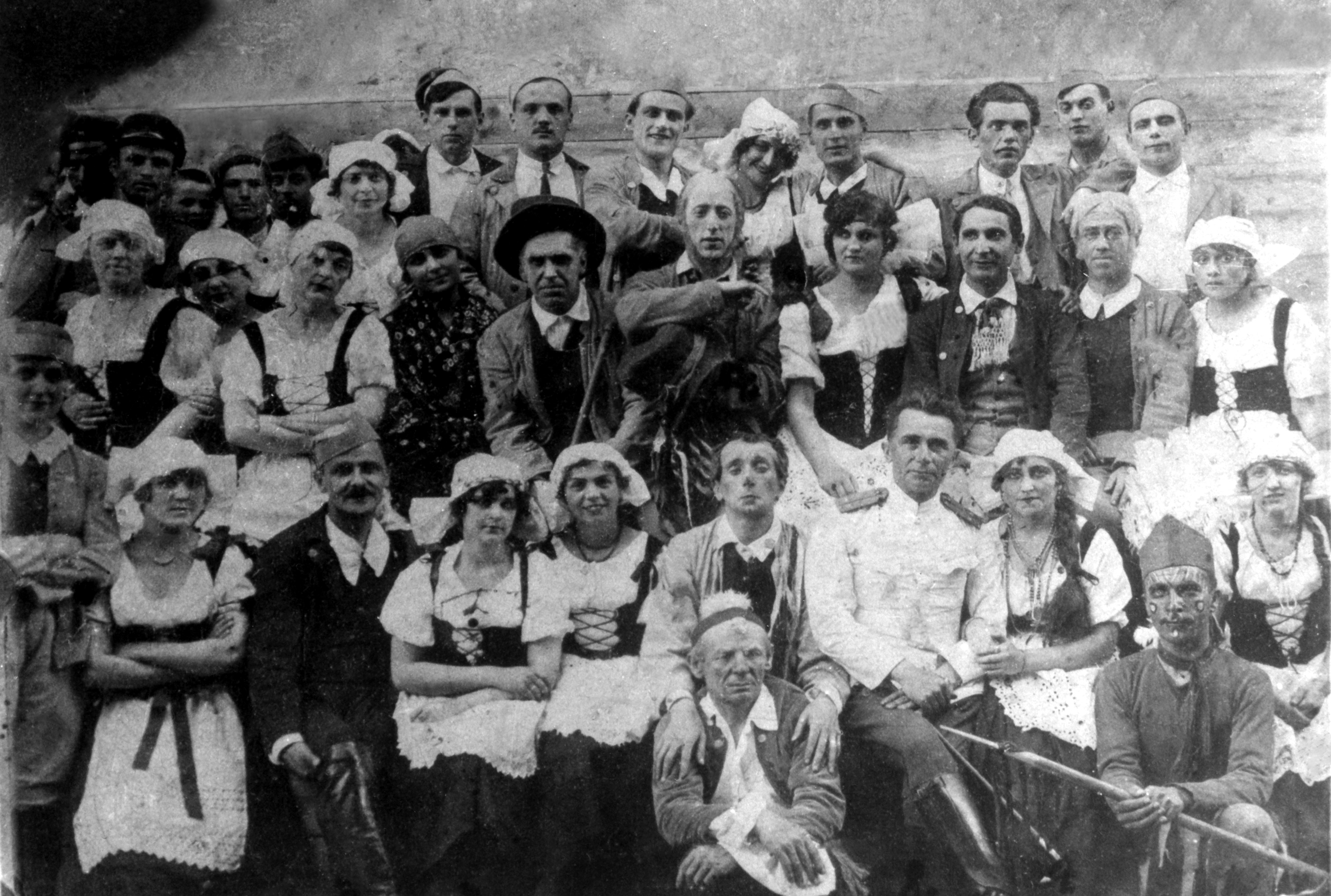 Performers of the opera The Bartered Bride by Bedřich Smetana, with director Dragomir Krančević (2nd row, 3rd from the right), Serbian National Theatre, Novi Sad, 1921 Srpski (latinica): Izvođači Prodane neveste, Bedriha Smetane sa rediteljem Dragomirom Krančevićem (drugi red, treći zdesna), Srpsko Narodno pozorište, Novi Sad, 1921. Српски (ћирилица): Извођачи Продане невесте Б. Сметане са редитељем Драгомиром Кранчевићем (други ред, трећи здесна), Српско народно позориште, Нови Сад, 1921.